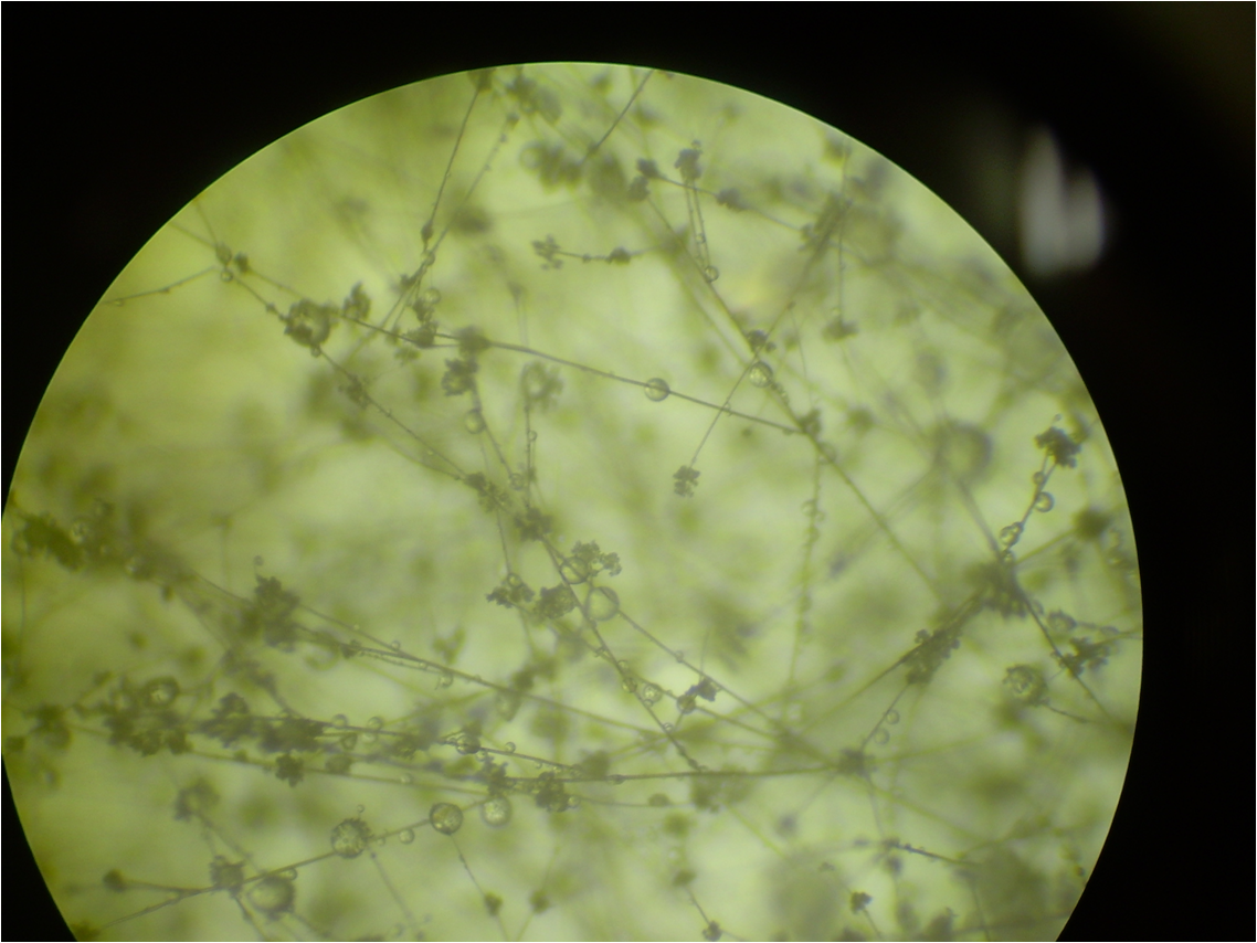 Botrytis cinerea conidiophores magnified 4.5X. Identified using Barnett, H. L. & Hunter, B. B. (1998) Illustrated Genera of Imperfect Fungi. APS Press: St. Paul, MN; pp. 76–7 ISBN 0-89054-192-2. Recovered from grape (Vitis vinifera L.). Host status confirmed using Farr, D. F., Bills, G. F., Chamuris, G. P., & Rossman, A. Y. (1995) Fungi on Plants and Plant Products in the United States. APS Press: St. Paul, MN; pp. 550–2 ISBN 0-89054-099-3.